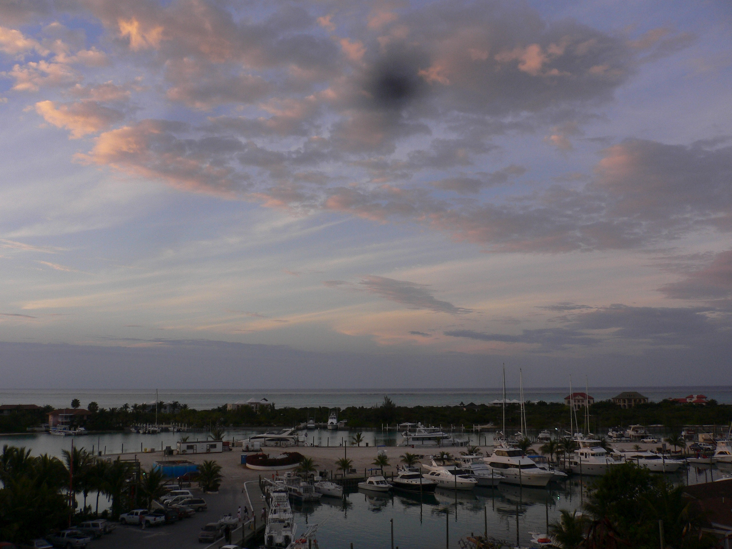 Turks and Caicos Islands sunset